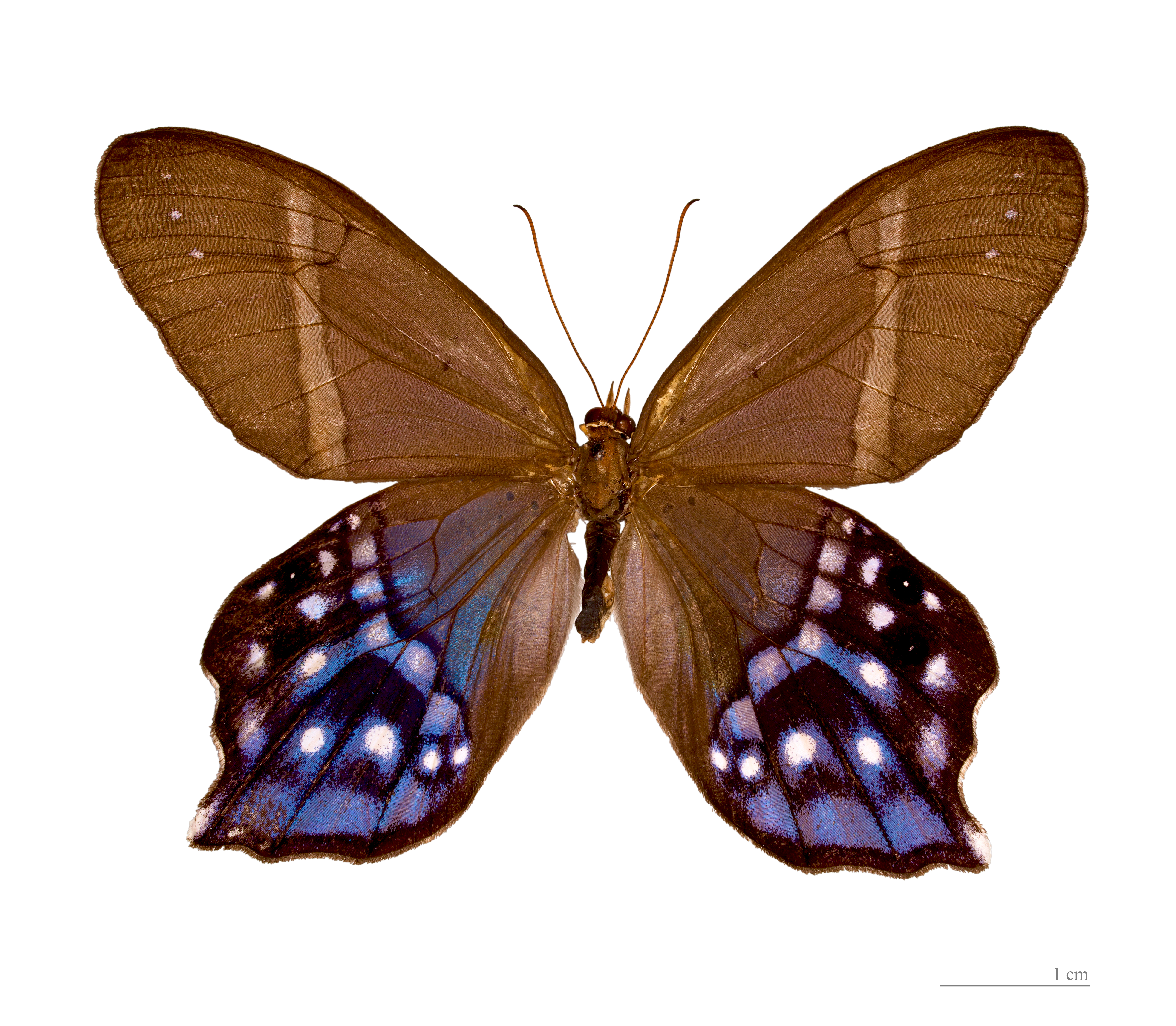 ♂ - Dorsal side Locality : Cacao, Crique Baguot, French Guiana